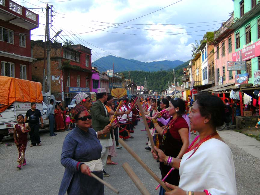 A festival celebrated by Newars in Nuwakot District of Nepal.